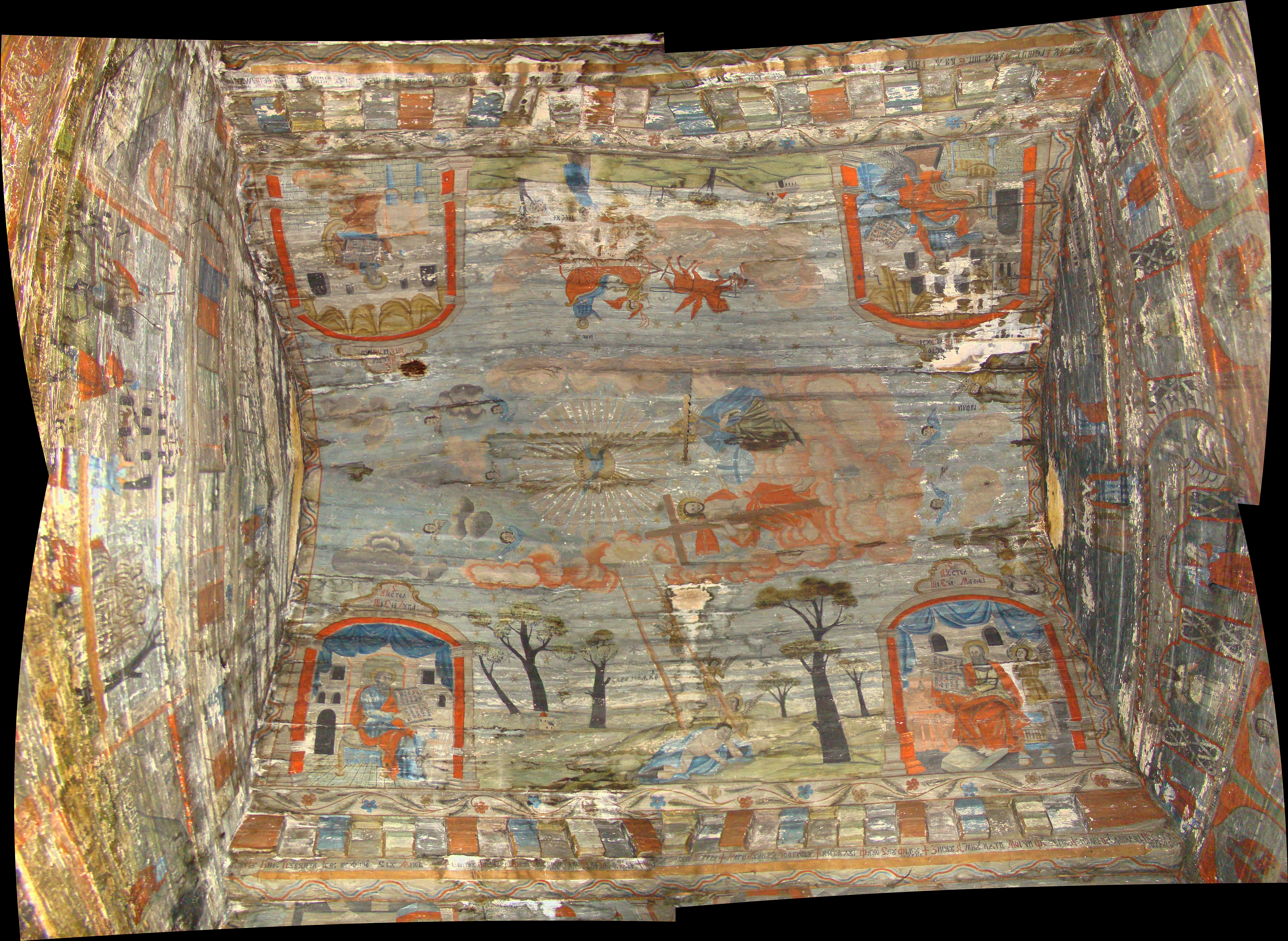 Image created by stitching 7 images produced and uploaded by Țetcu Mircea Rareș